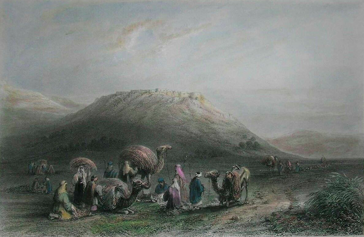 Sanur, near Jenin